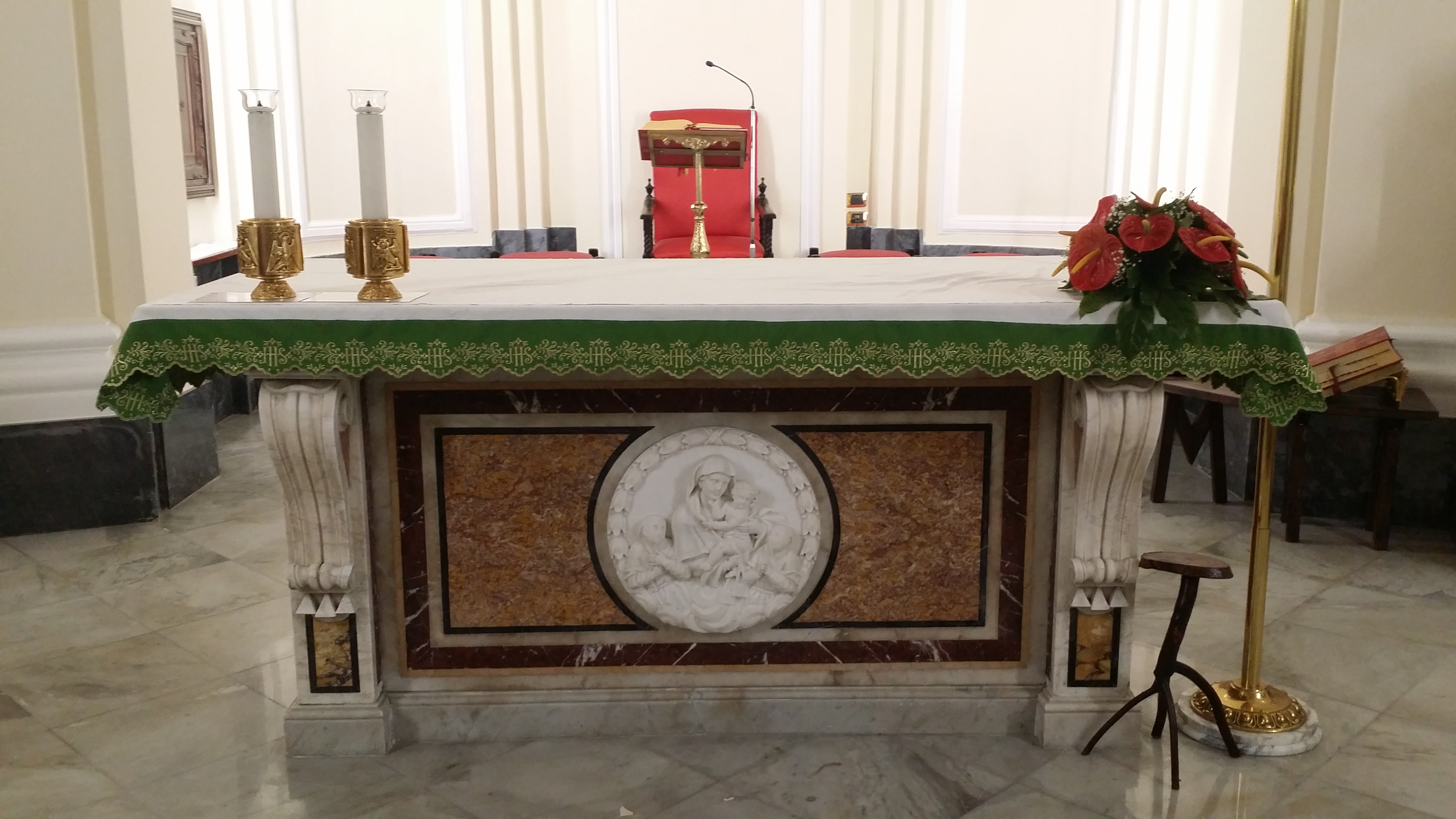 High altar in polychrome marble with central circular representation in white stucco of the Madonna and Child Jesus among other children, located in the church of Santa Maria del Carmine, Angri (Sa).